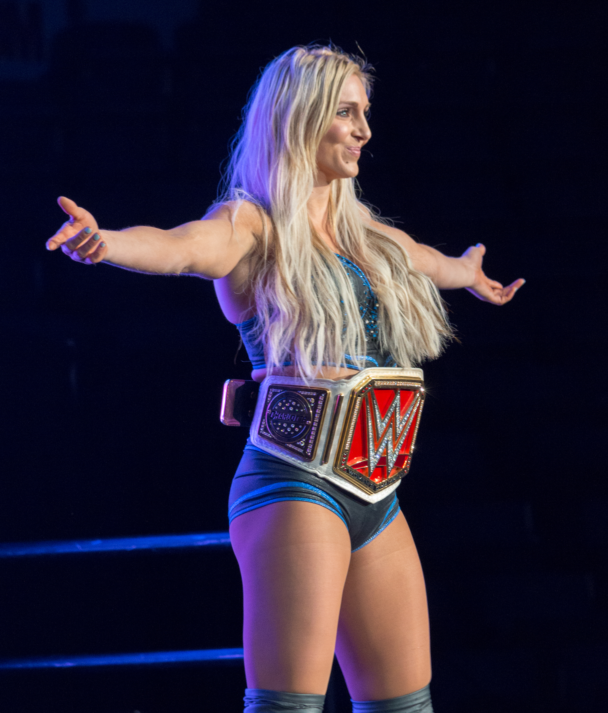 WWE womens champion Charlotte posing with the belt prematch